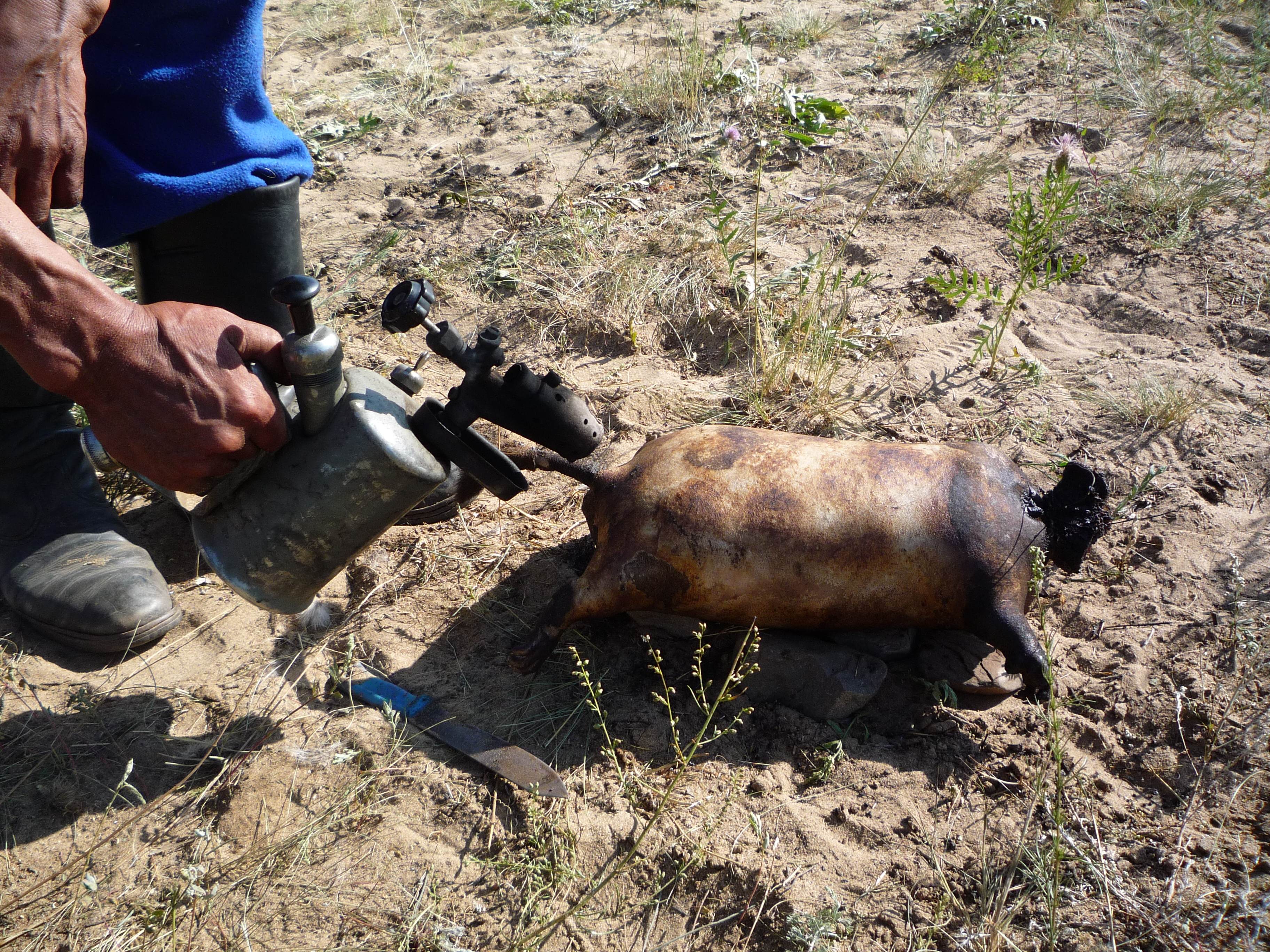 Mongolian hunter prepares a boodog using a marmot